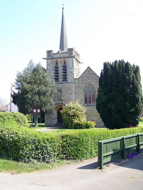 The Church of St Thomas, Southwick Anglican parish church built between 1899-1904 by C E Ponting. It is built of limestone and is Grade II listed.